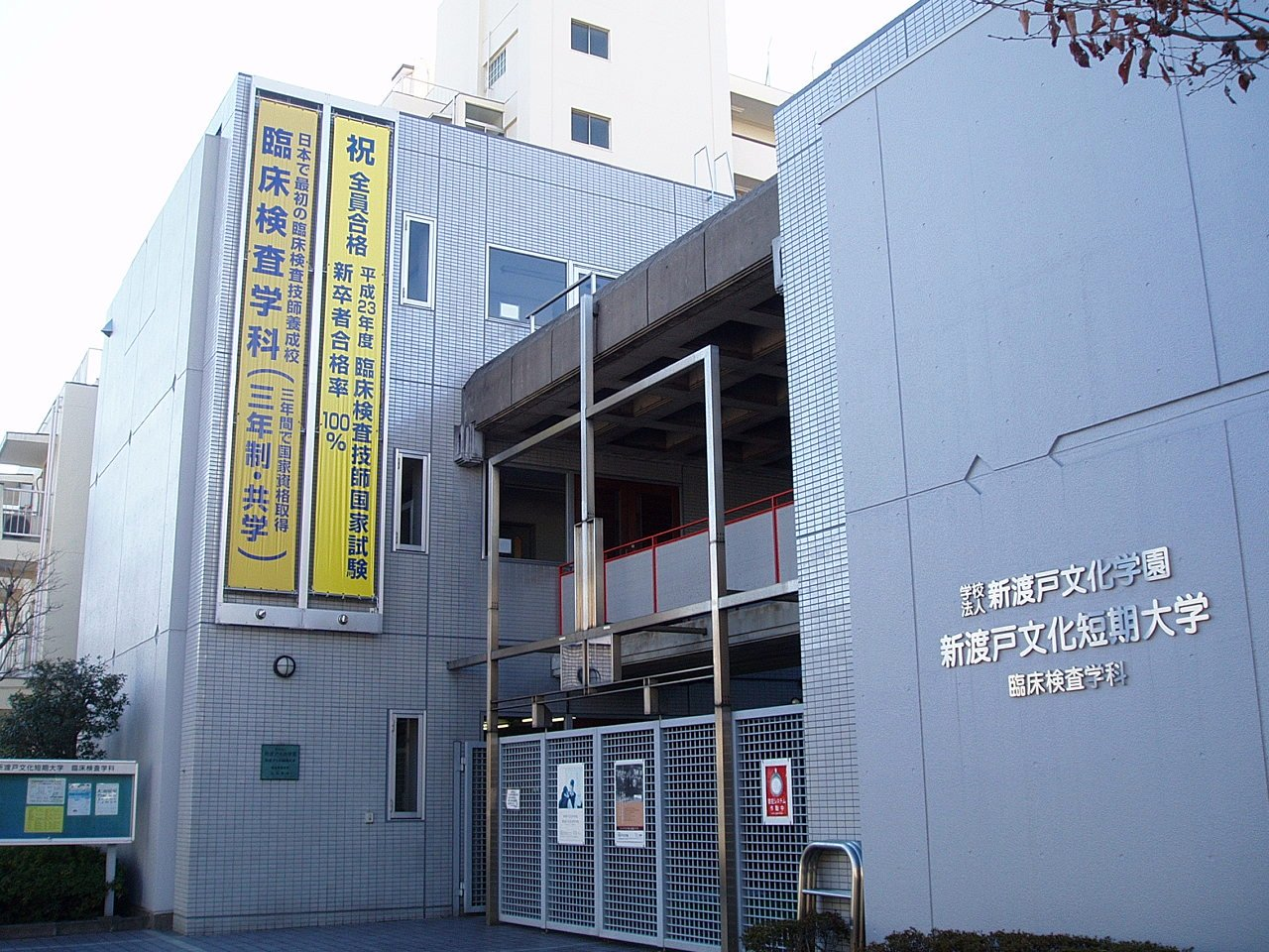 The Department of Clinical Laboratory Sciences, Nitobe Bunka College (formerly Tokyo Bunka College of Medical Technology), located in Nakano, Tokyo, Japan.